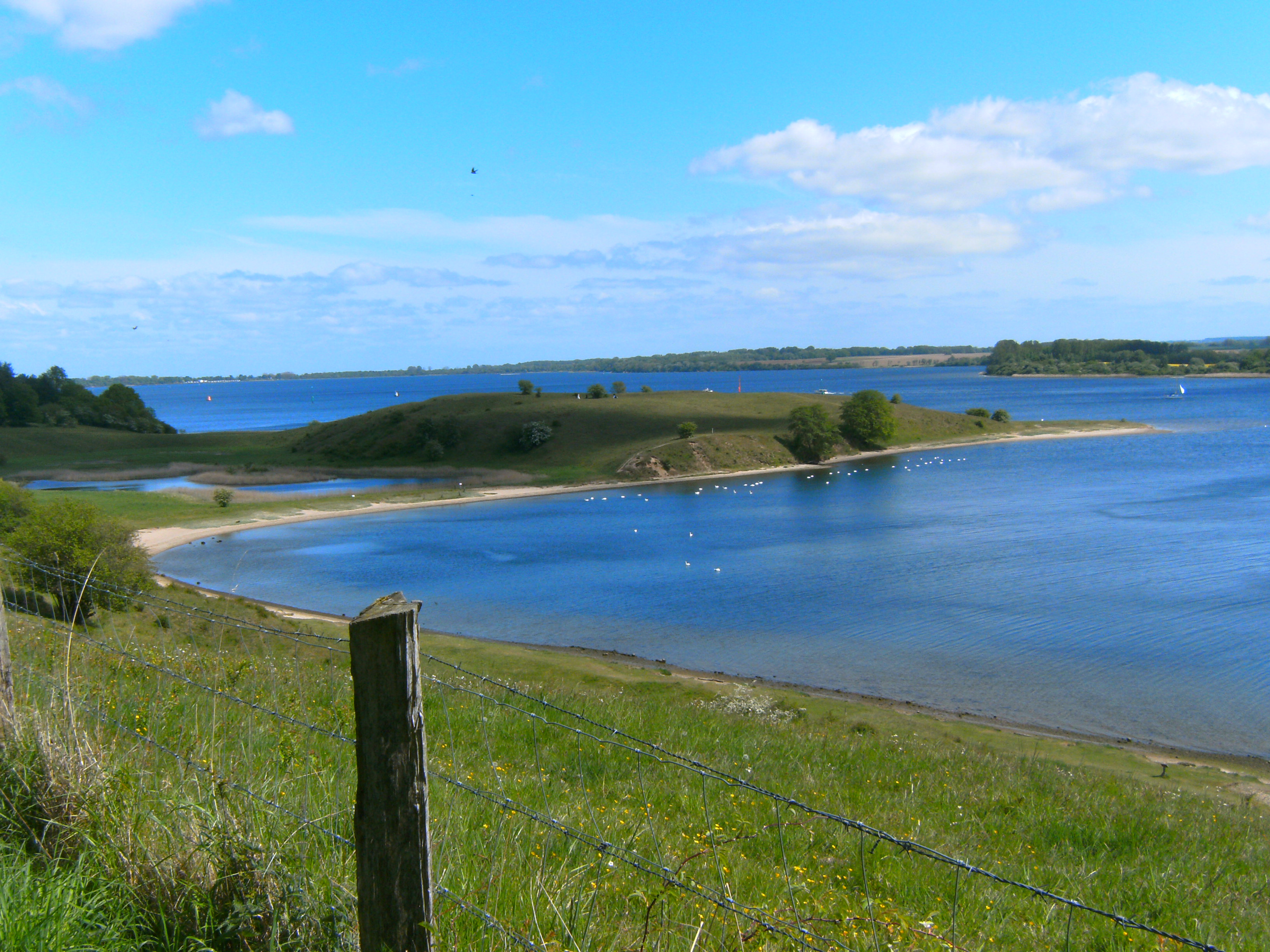 Lübeck-Travemünde, Dummersdorfer Ufer, Germany, Hirtenberg (hill).